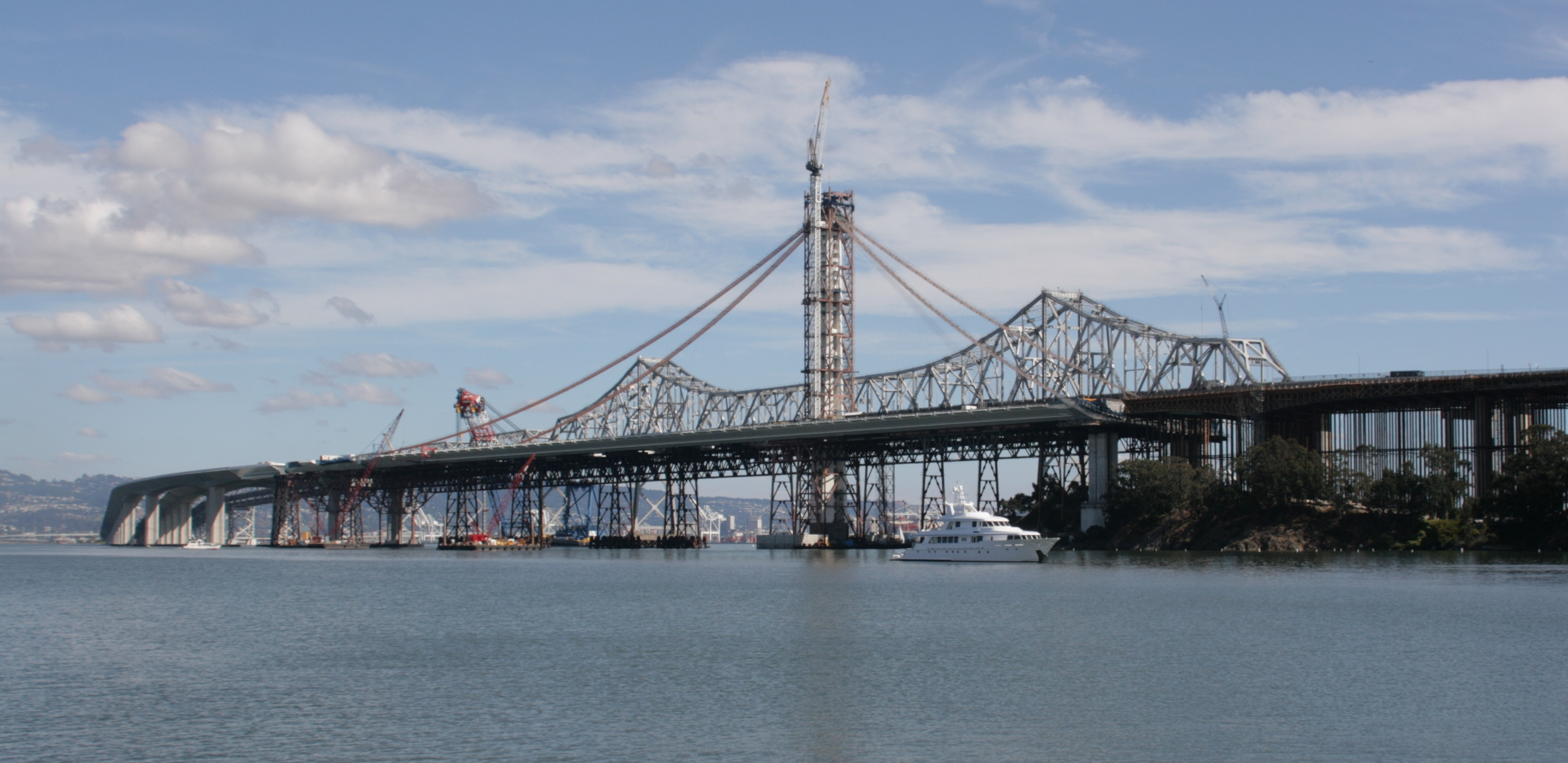 San Francisco - Oakland Bay Bridge (eastern span replacement construction). Catwalks for cable spinning and traveller turning tracks have been installed, a deck segment is being emplaced at the east end.